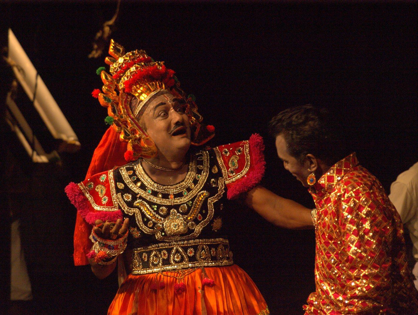 An artist depicting Kovalan